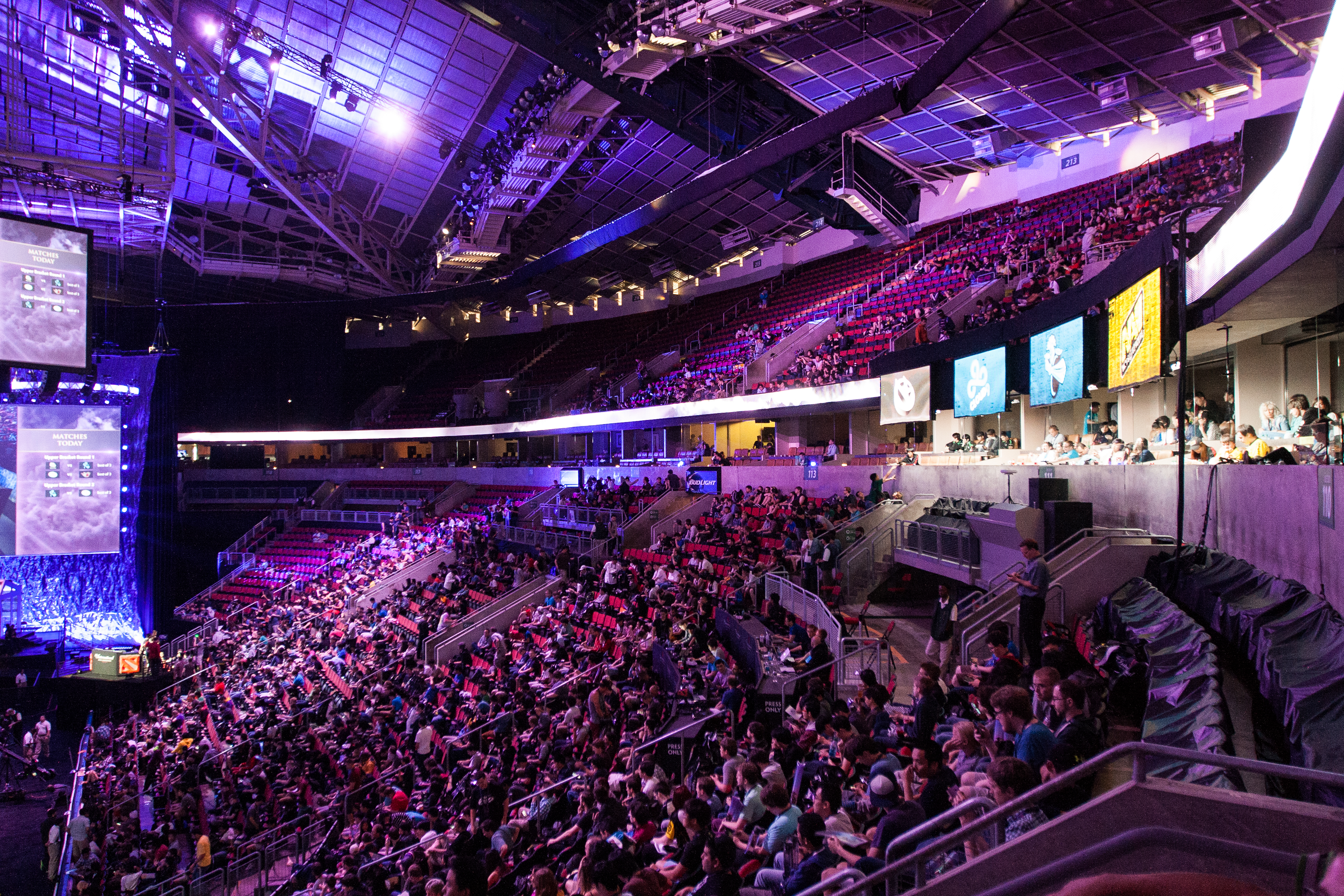 The crowd at KeyArena watching The International 2014.